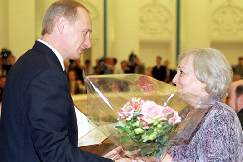 THE KREMLIN, MOSCOW. President Putin speaking with film director Tatyana Lioznova before a meeting of the Presidential Council on Culture and the Arts.